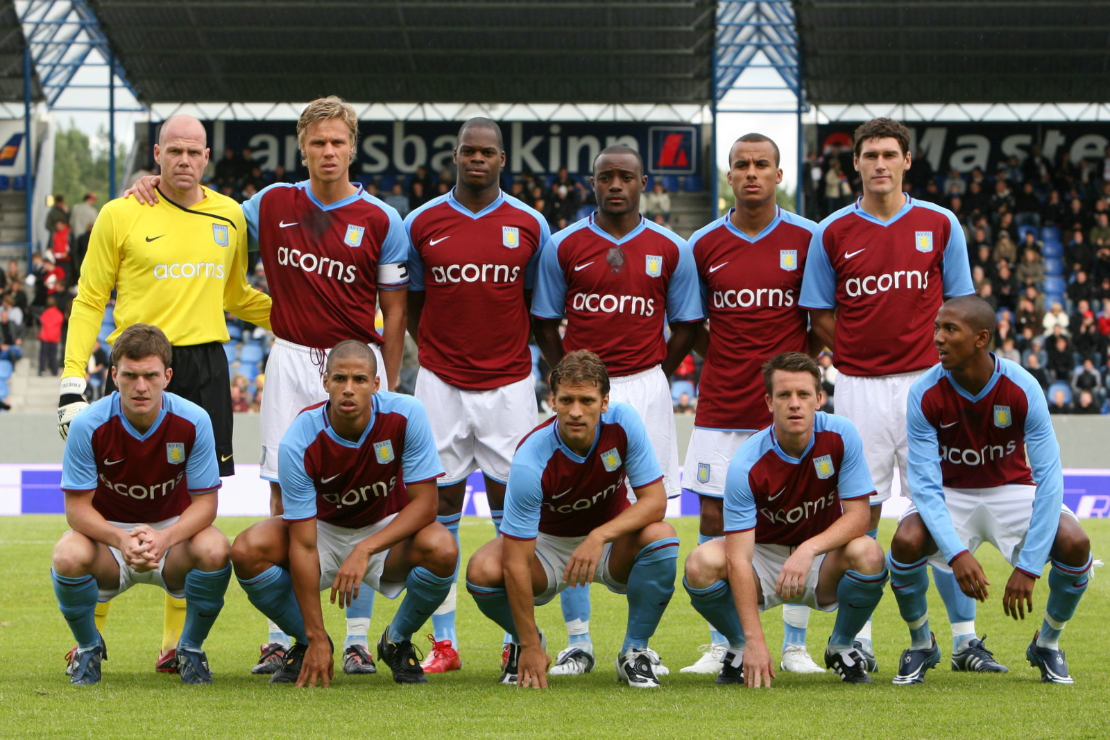 Front (l to r) Gardner, Davies, Petrov, Shorey, Young; BackL Friedel, Laursen, Harewood, Reo-Coker, Agbonlahor, Barry